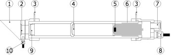 DR01 pyrheliometer: (1) protection cap, (2) window with heater, (3) sight, (5) sensor, (7) humidity indicator, (10) cable for heater